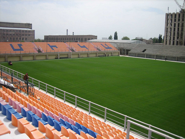 FC Mika's home ground, Yerevan, Armenia.